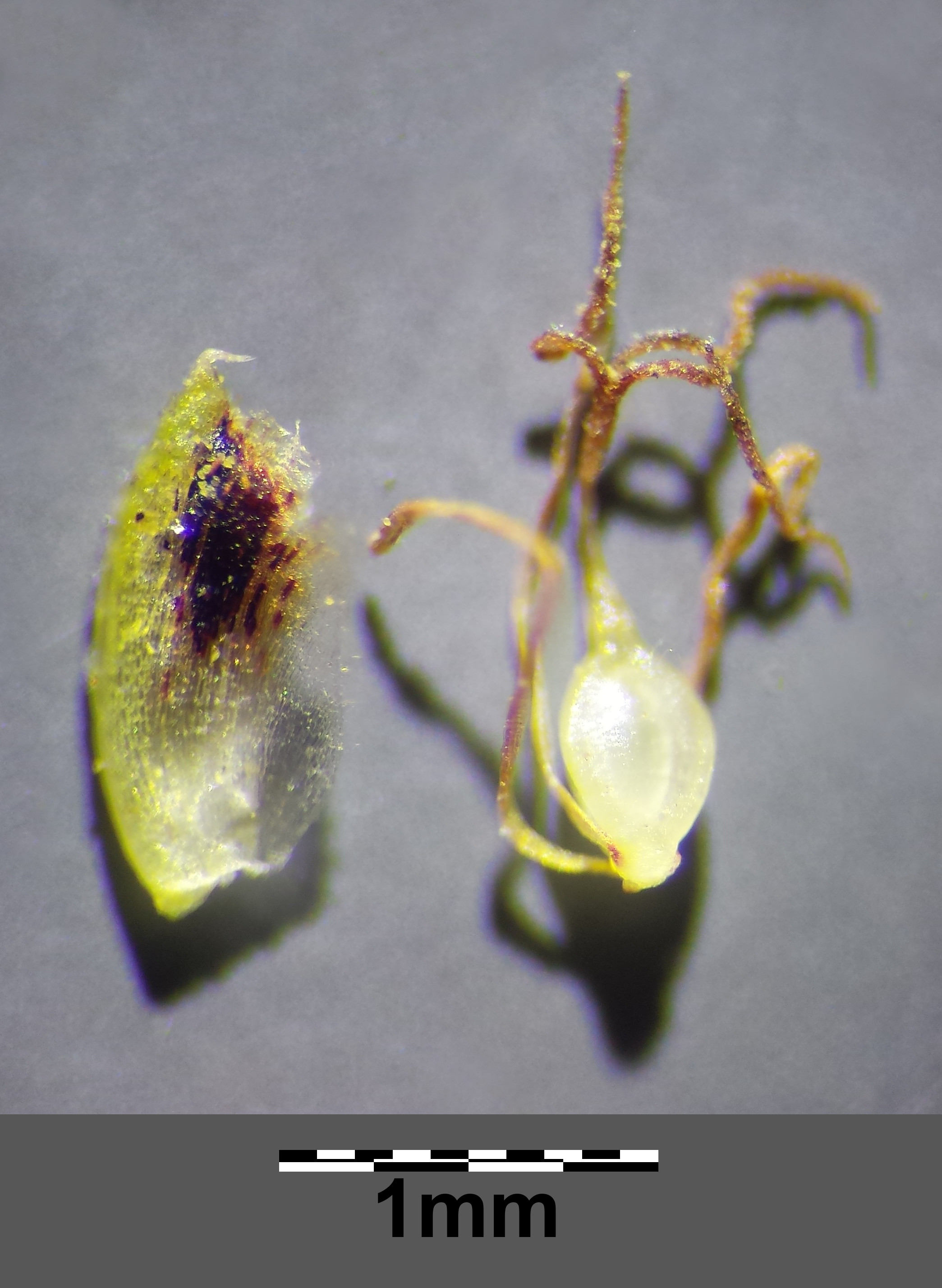 Glume and fruit Taxonym: Scirpoides holoschoenus ss Fischer et al. EfÖLS 2008 ISBN 978-3-85474-187-9 Location: ArbeiterInnenstrand at Alte Donau (former Arbeiterstandbad), Vienna-Donaustadt - ca. 160 m a.s.l. Habitat: shore